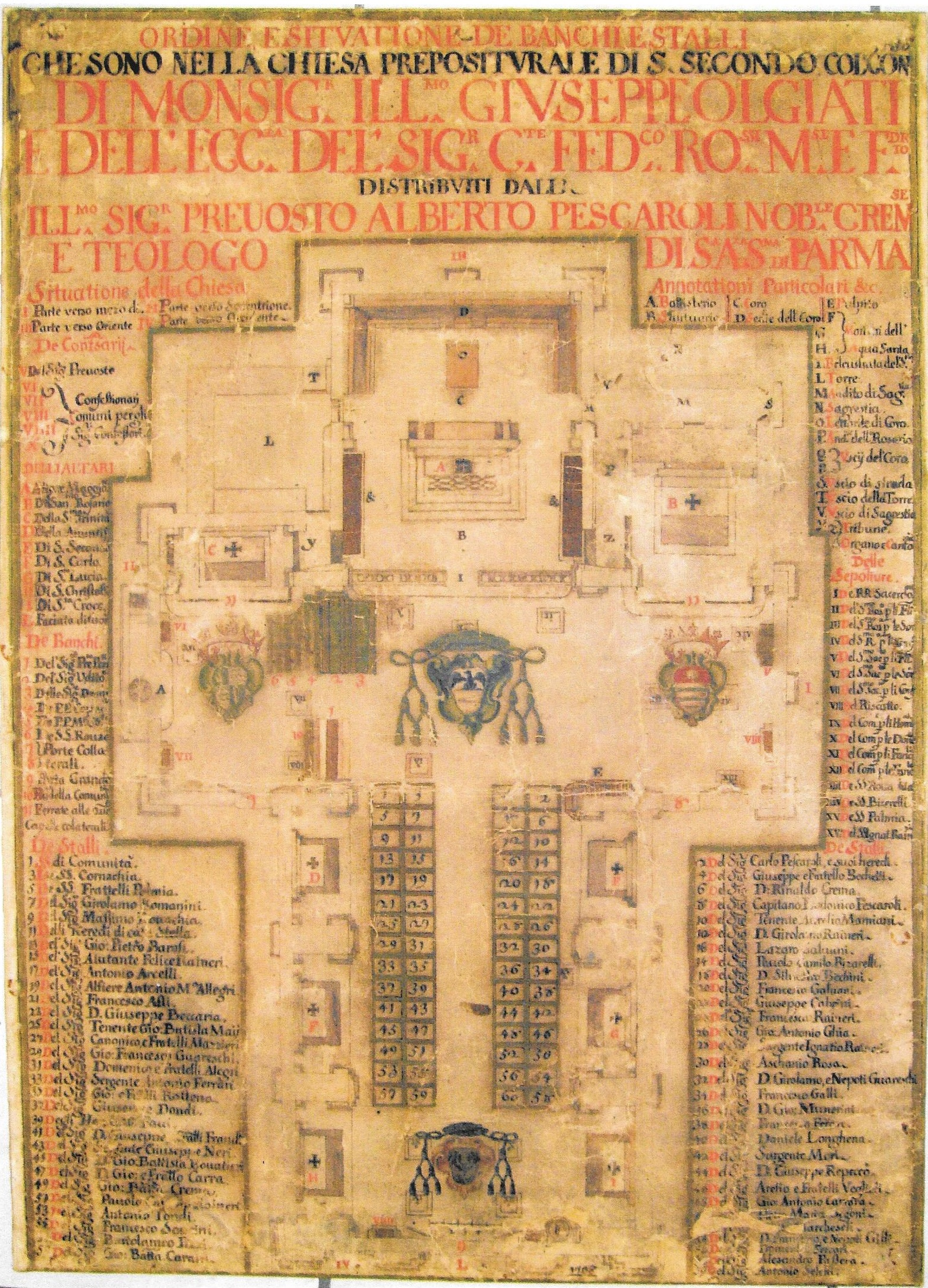 Beata Vergine Maria Curch layout about 1710